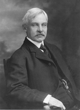 Harry Alden Richardson of Delaware (1853-1928)